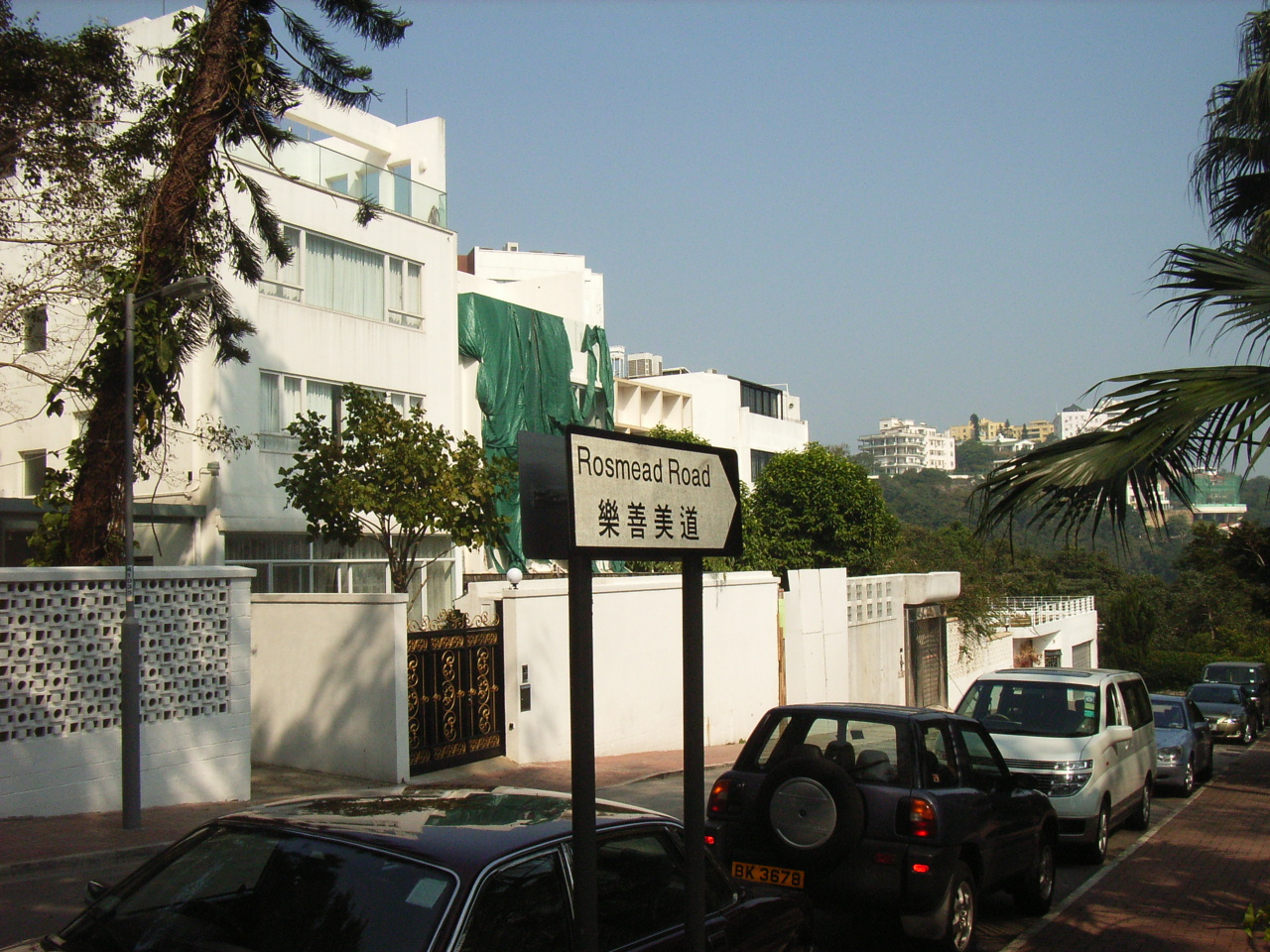 樂善美道（Lord Rosmead Road），是香港島太平山頂山頂纜車總站的東面，山頂道的南面(摘星閣)，經僑福道(環翠園)，入文輝道可以到達的一條行車街路。 Mansfield Road, The Peak, Hong Kong. Photographer and author is ParkerStarS.